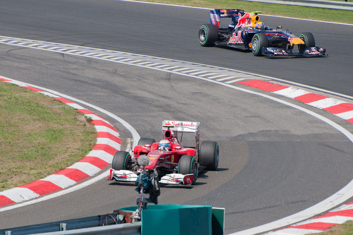 Alonso pits while Webbers stays out during 2010 Hungarian Grand Prix